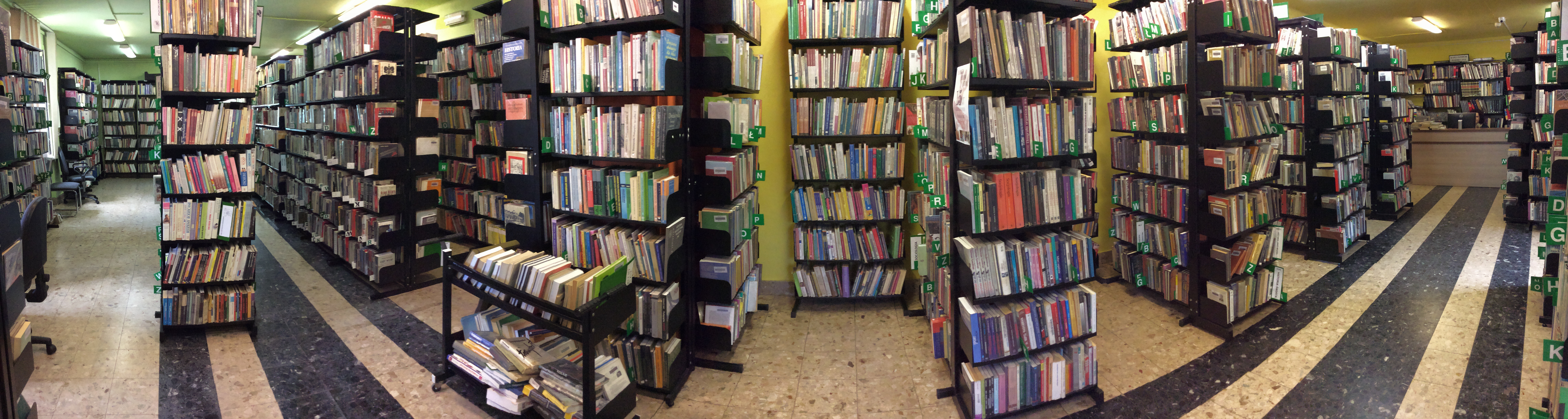 Library in Trzebinia